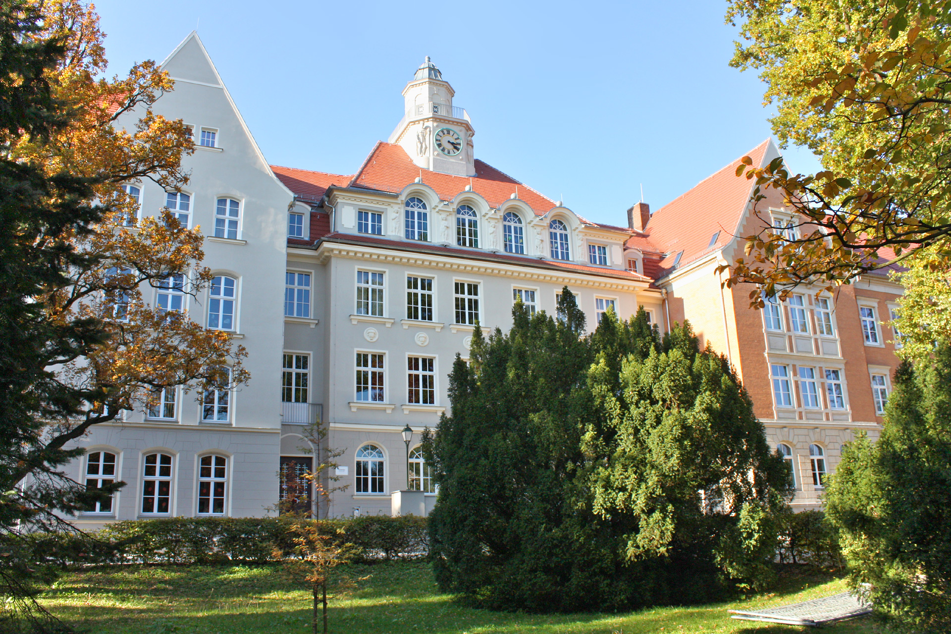 Primary and secondary school at the Kirchstraße in Bischofswerda in the district of Bautzen in Saxony, Germany.